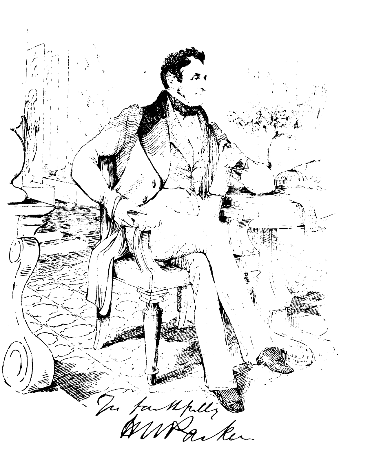 Henry Meredith Parker, author of Bole Ponjis